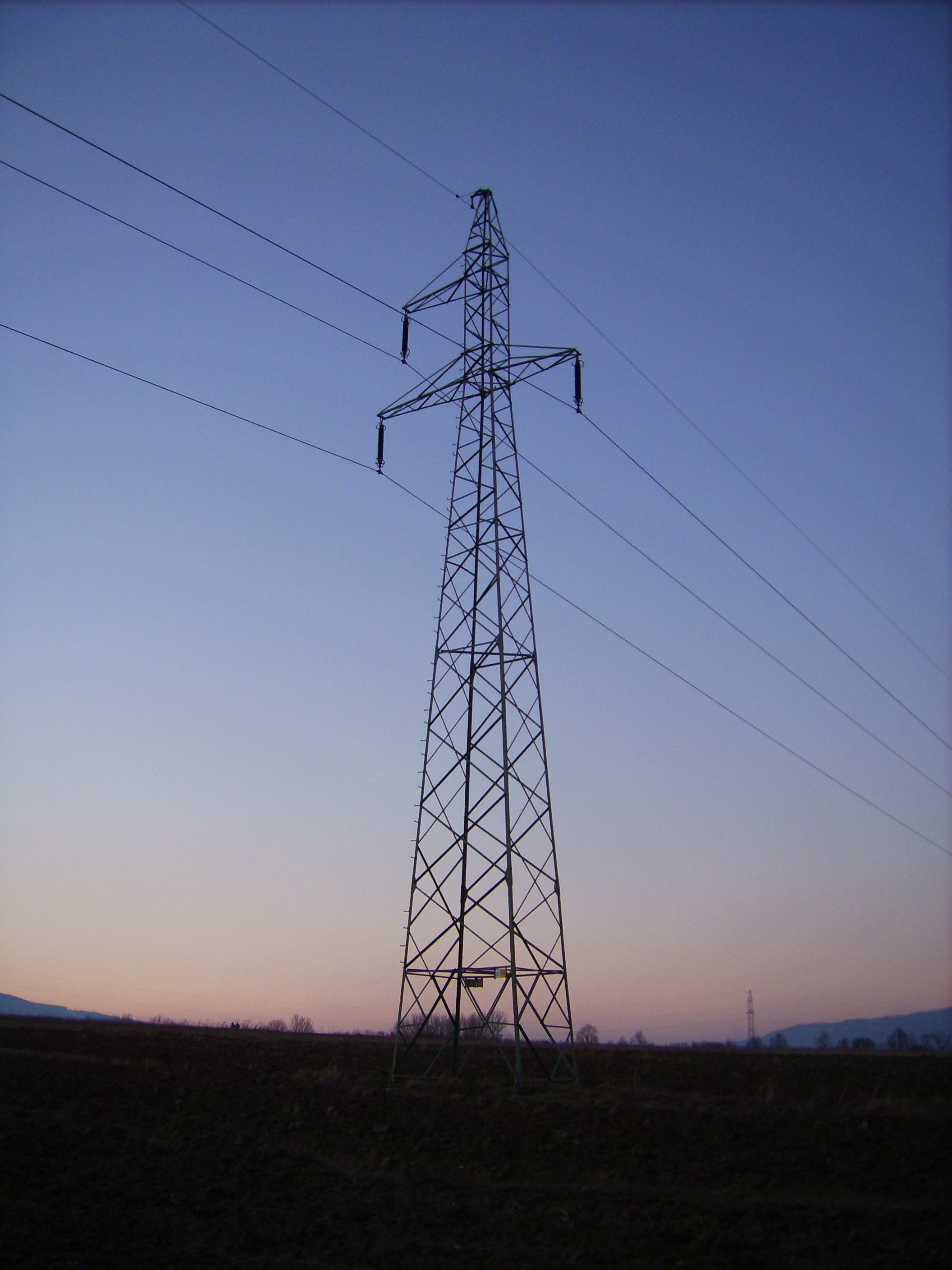 High tension power line; single-circuit three-phase transmission line